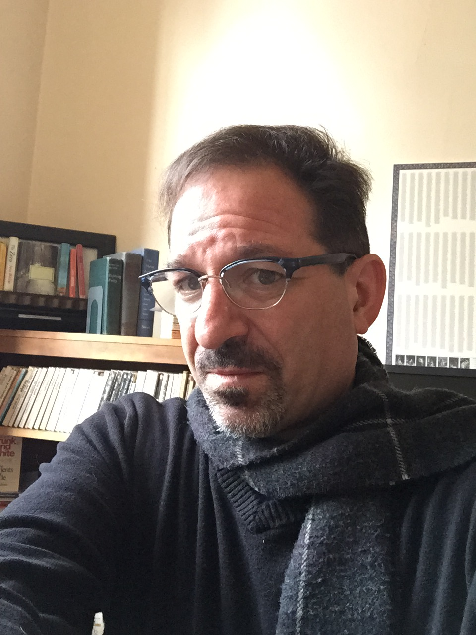 David Biespiel